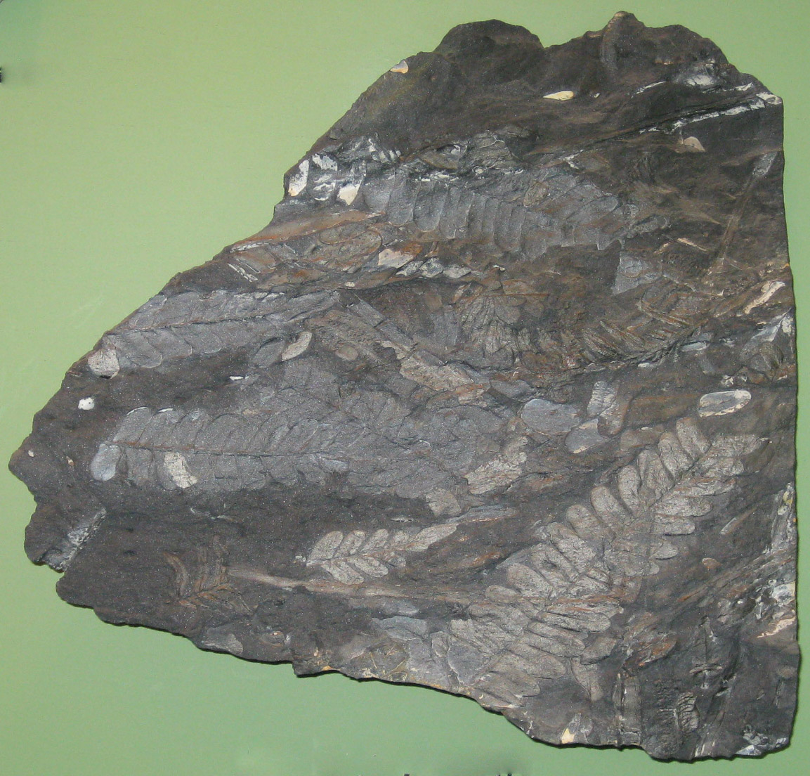 Fossil plant Neuropteris on display at the State Museum of Pennsylvania. Leaves appear bright due to flash of camera.